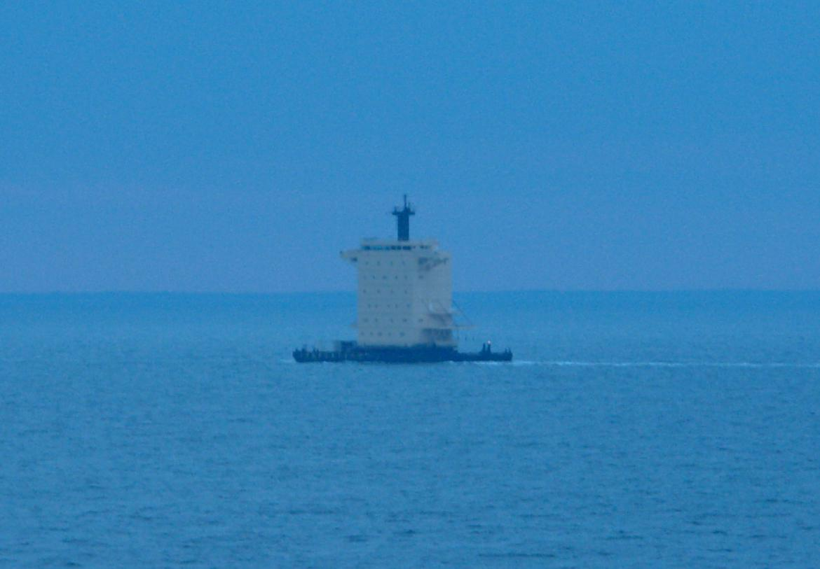 Unknown vessel in the baltic sea.